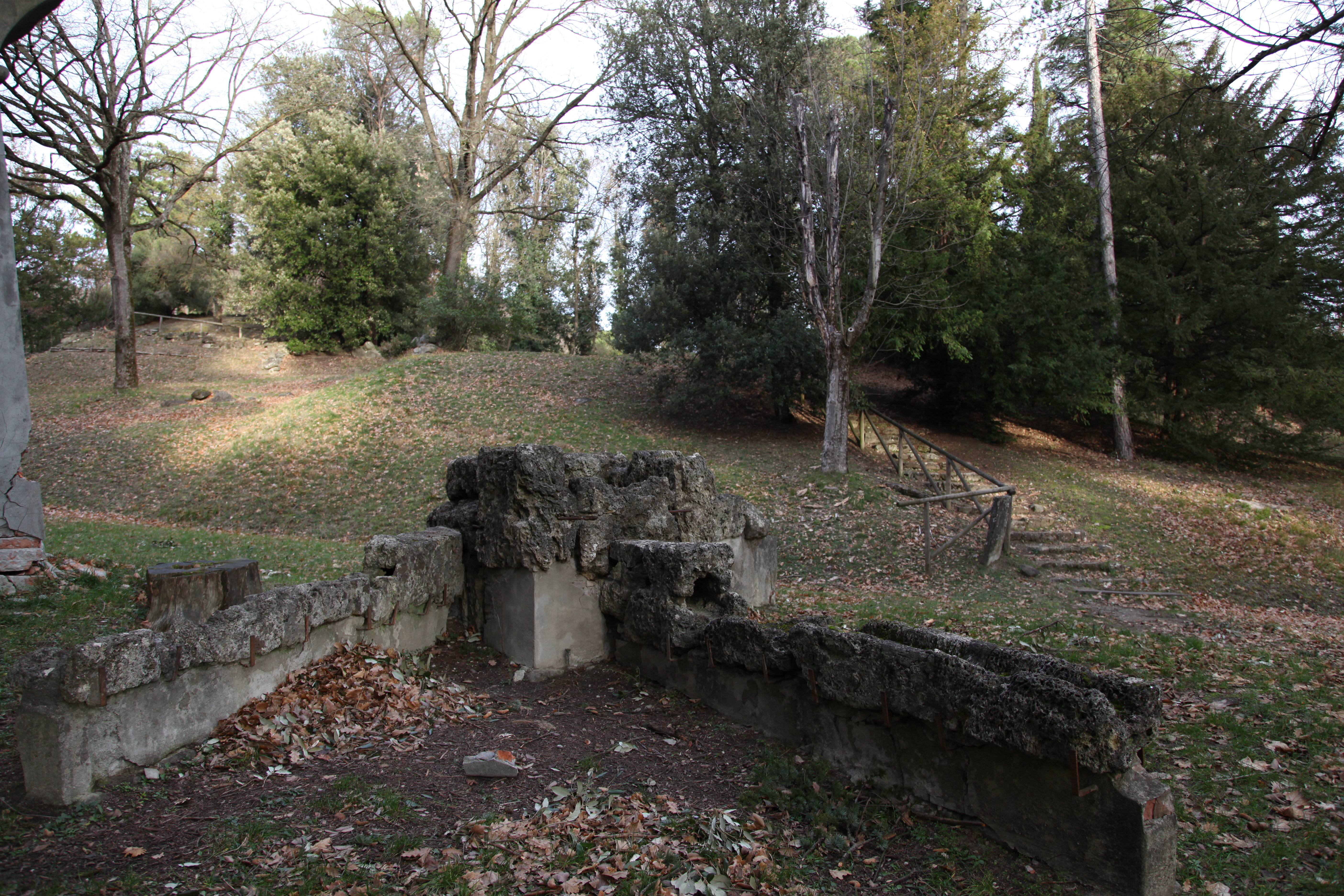 Etruscan city at Marzabotto. Water system in travertine. The structure was capable of distributing water at the entire city. This is a photo of a monument which is part of cultural heritage of Italy.